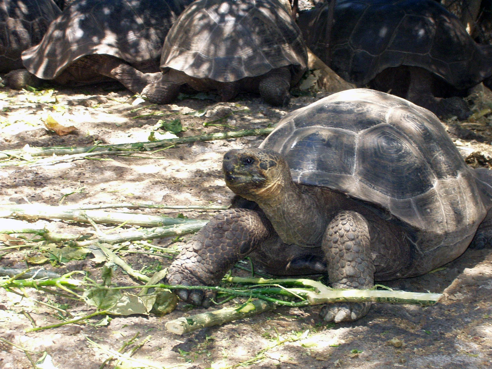 Tortoises at the Charles Darwin Research Station Galapagosonline